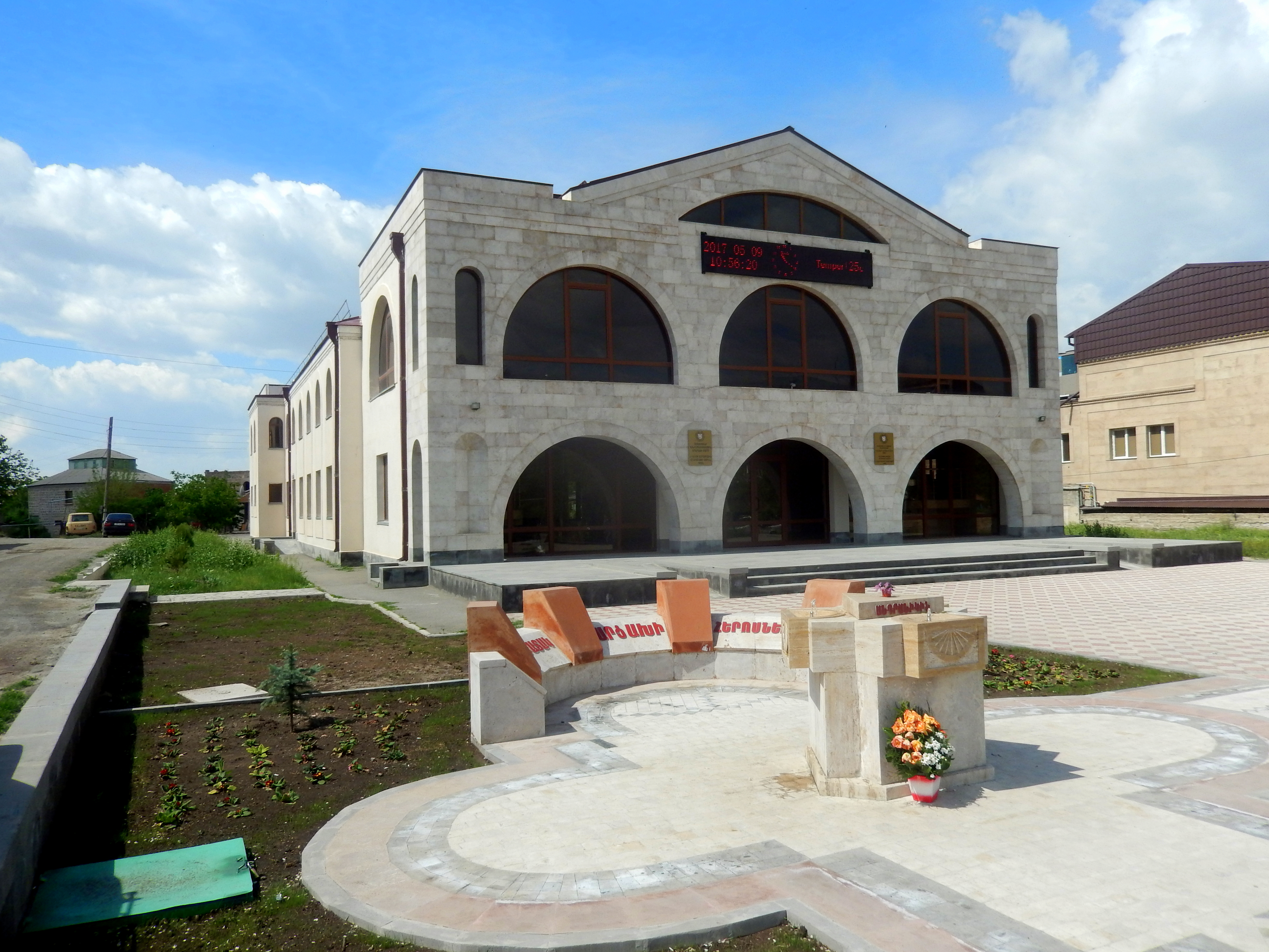 Memorial for Andranik Zohrabyan in Vedi